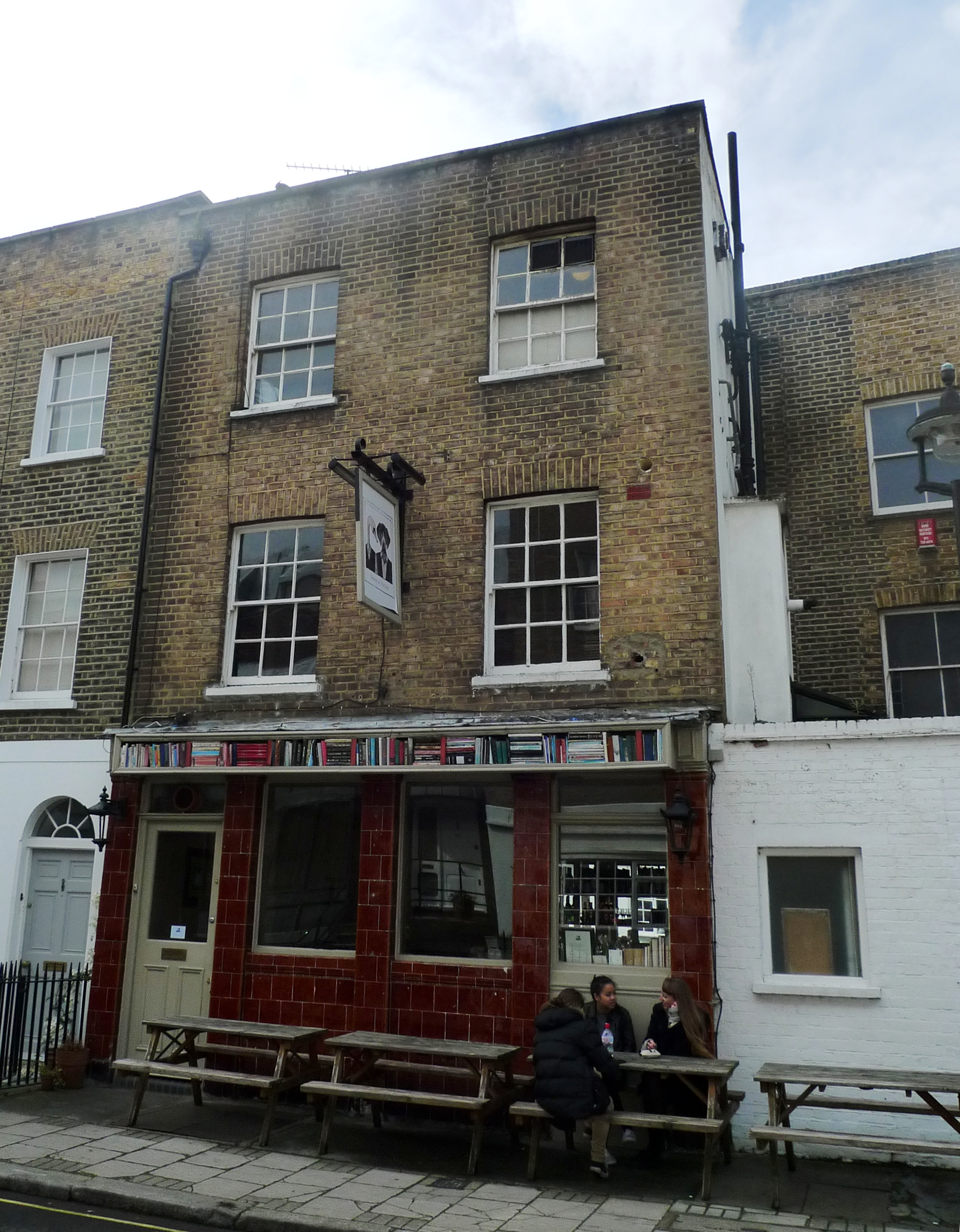 A pub in the streets off Marylebone Road, near the station. Address: 43 Linhope Street (formerly Edward Street). Former Name(s): The Feathers. Owner: Enterprise Inns. Links: Fancyapint Pubs Galore Beer in the Evening Dead Pubs (history)